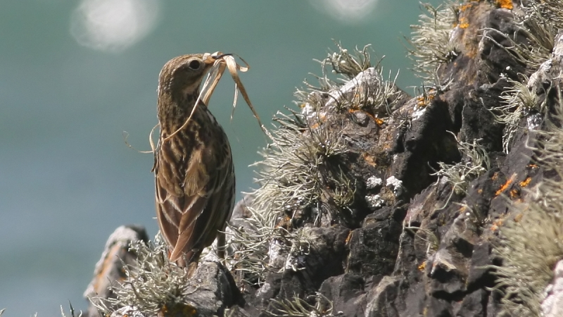 Meadow Pipit (Anthus pratensis)